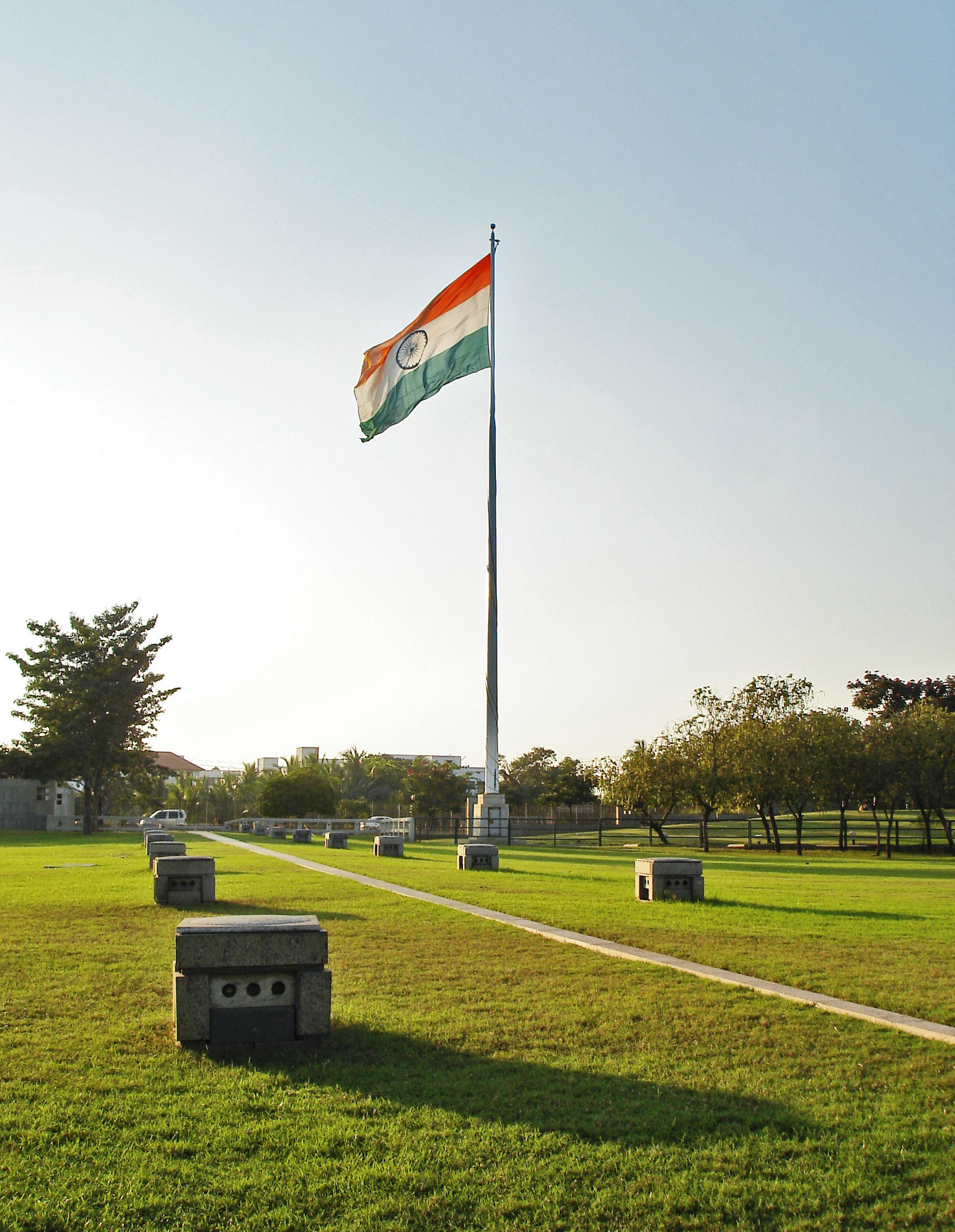 Known as the "Path of Light", this was the path that Rajiv Gandhi took before being assasinated, Rajiv Gandhi Memorial